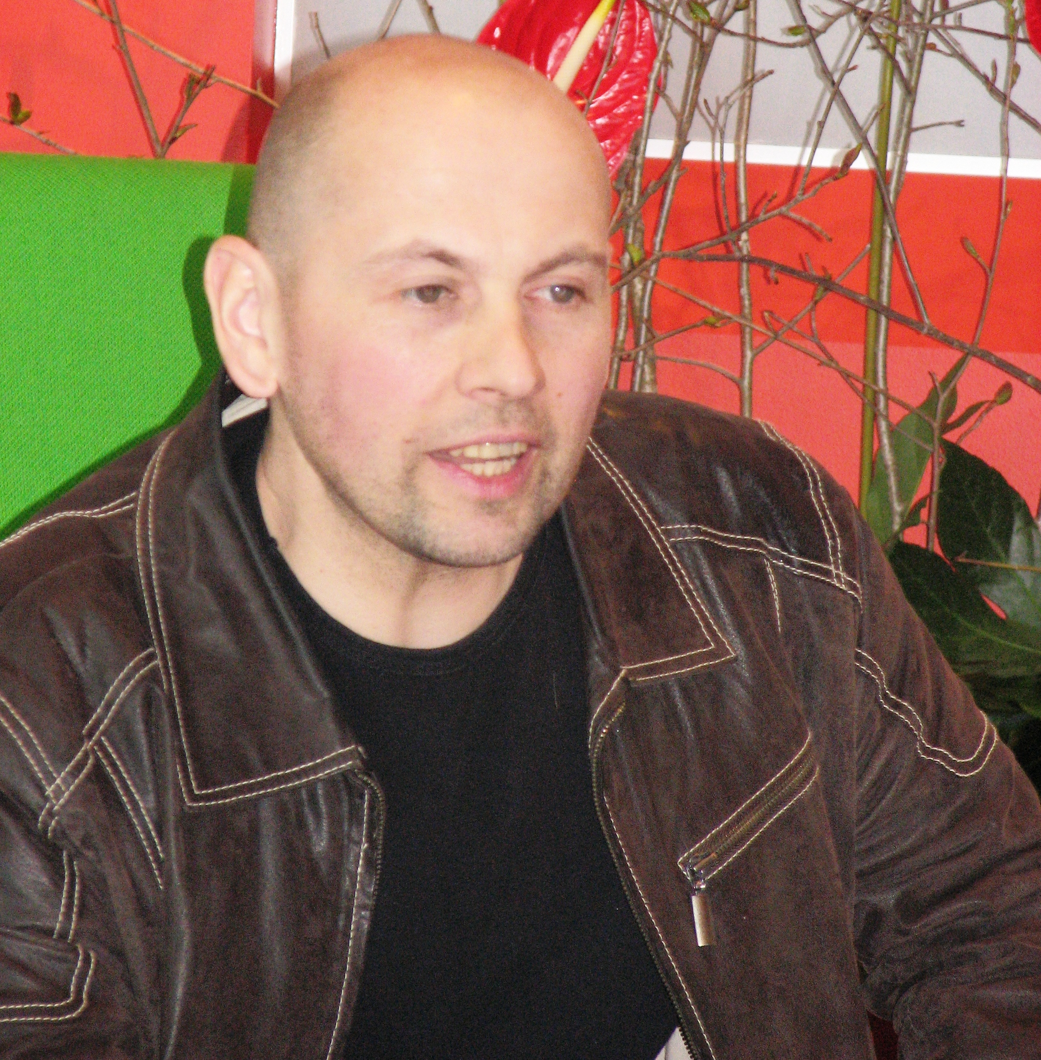 Urmas Nemvalts in the Baltic Book Fair.